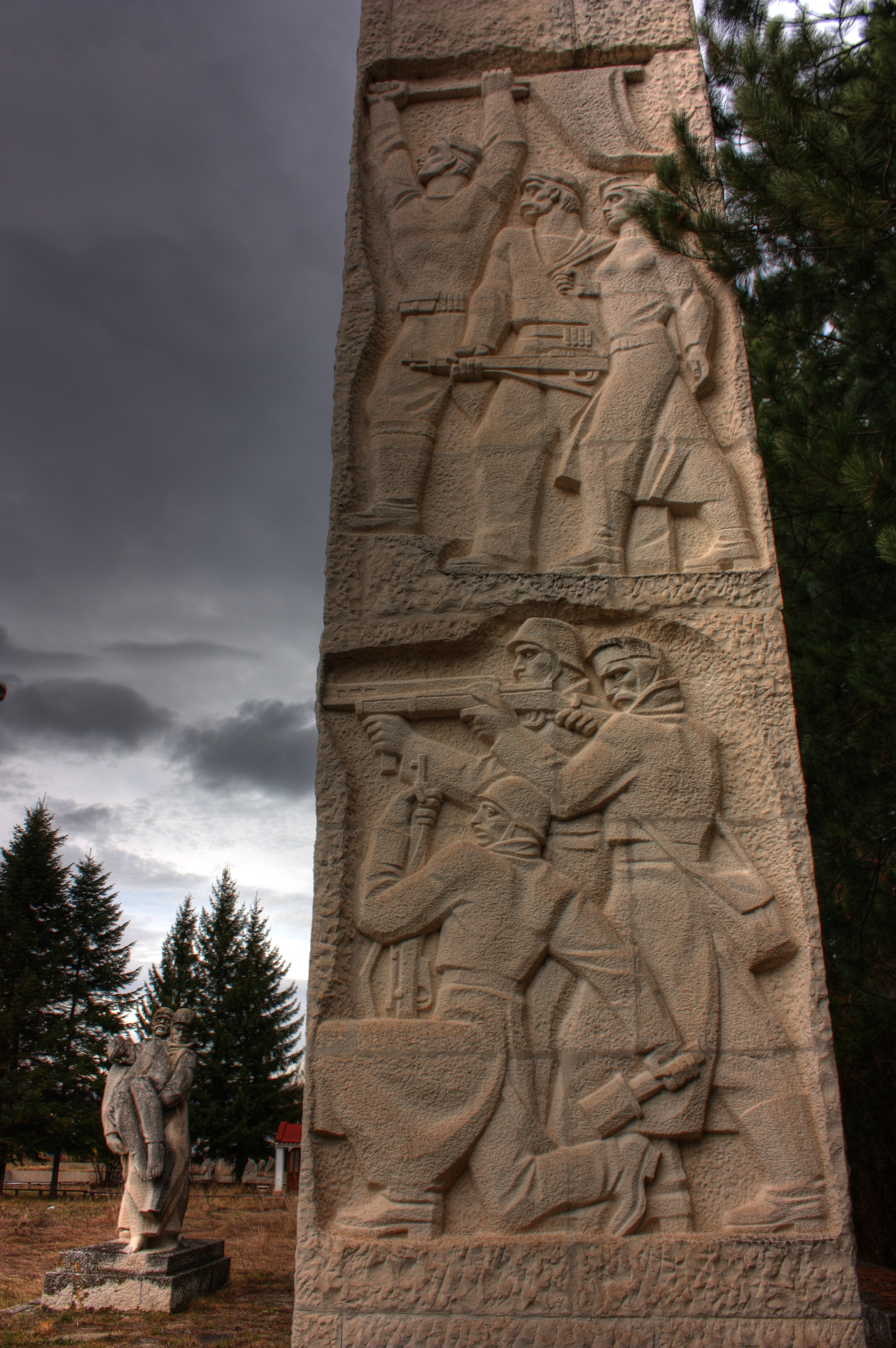 The war monument at the Bulgarian village Dolna Dikanya.